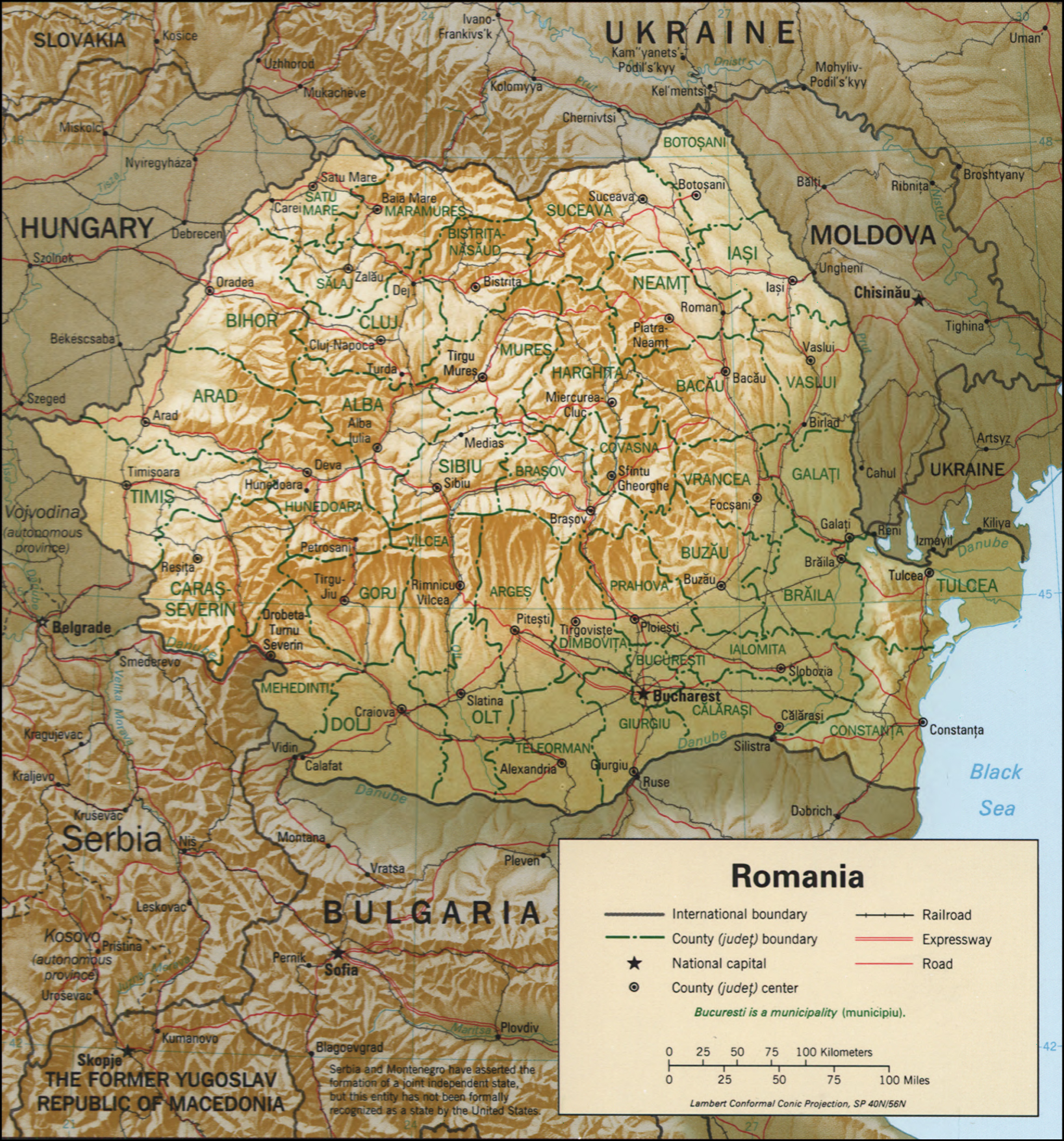 Map of Romania.